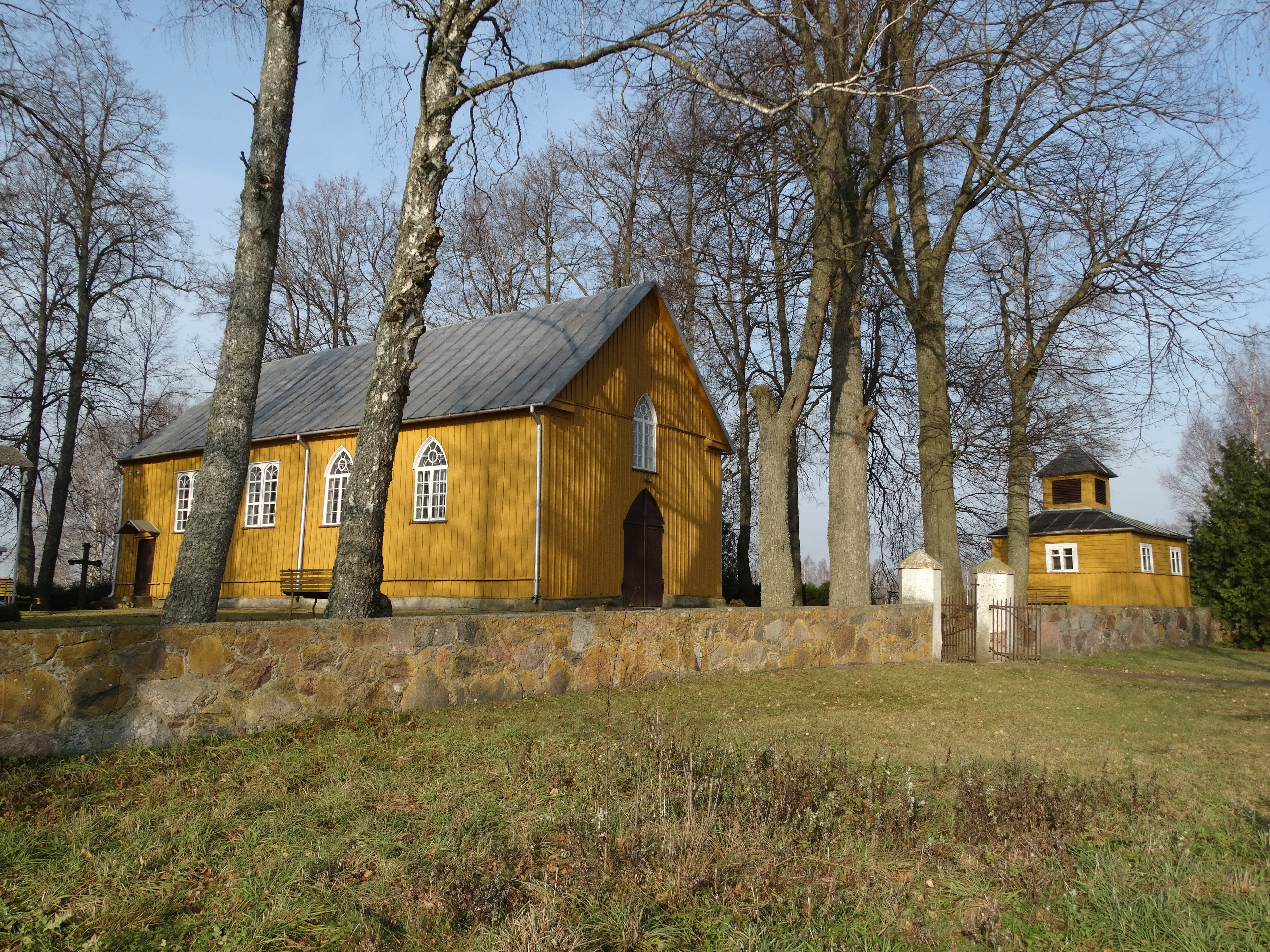 Roman Catholic Church, Geidžiūnai, Biržai district, Lithuania